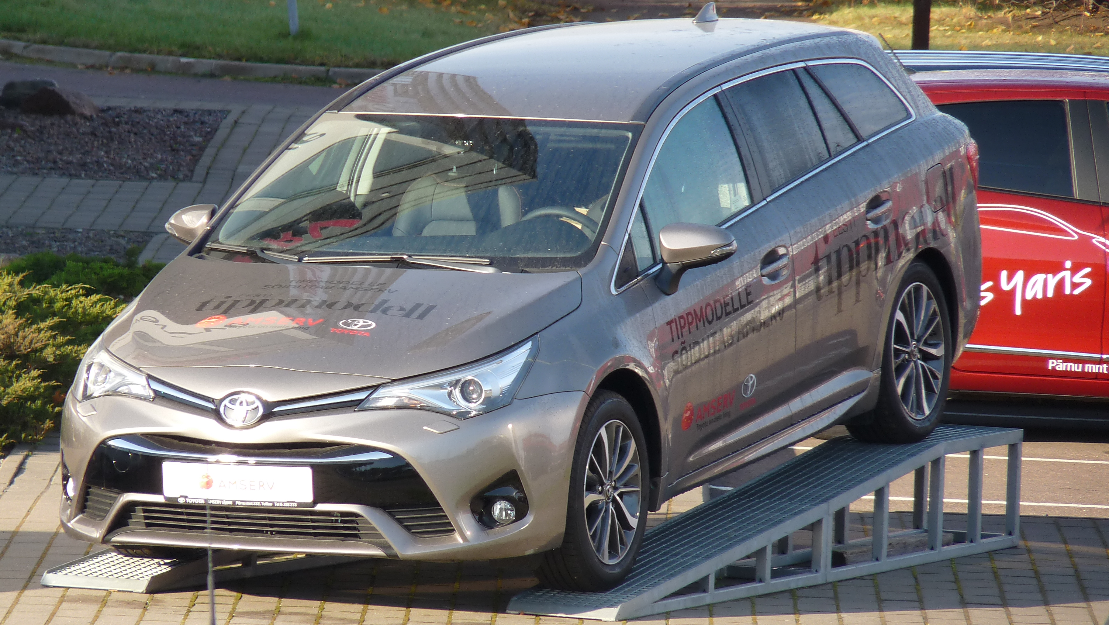 Toyota automobile in Tallinn, Estonia